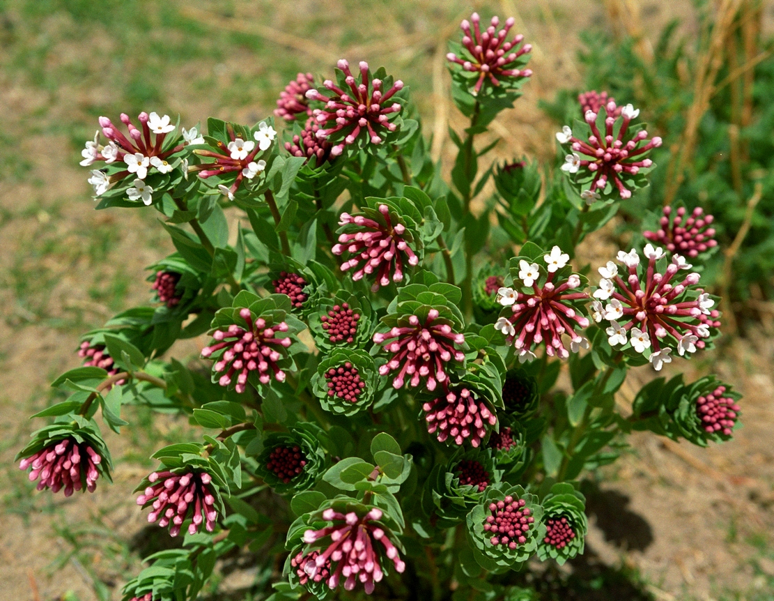 Stellera chamaejasme in Tibet